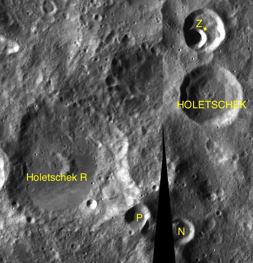 Parts of the charts LAC-102, LAC-103 used for the presentation